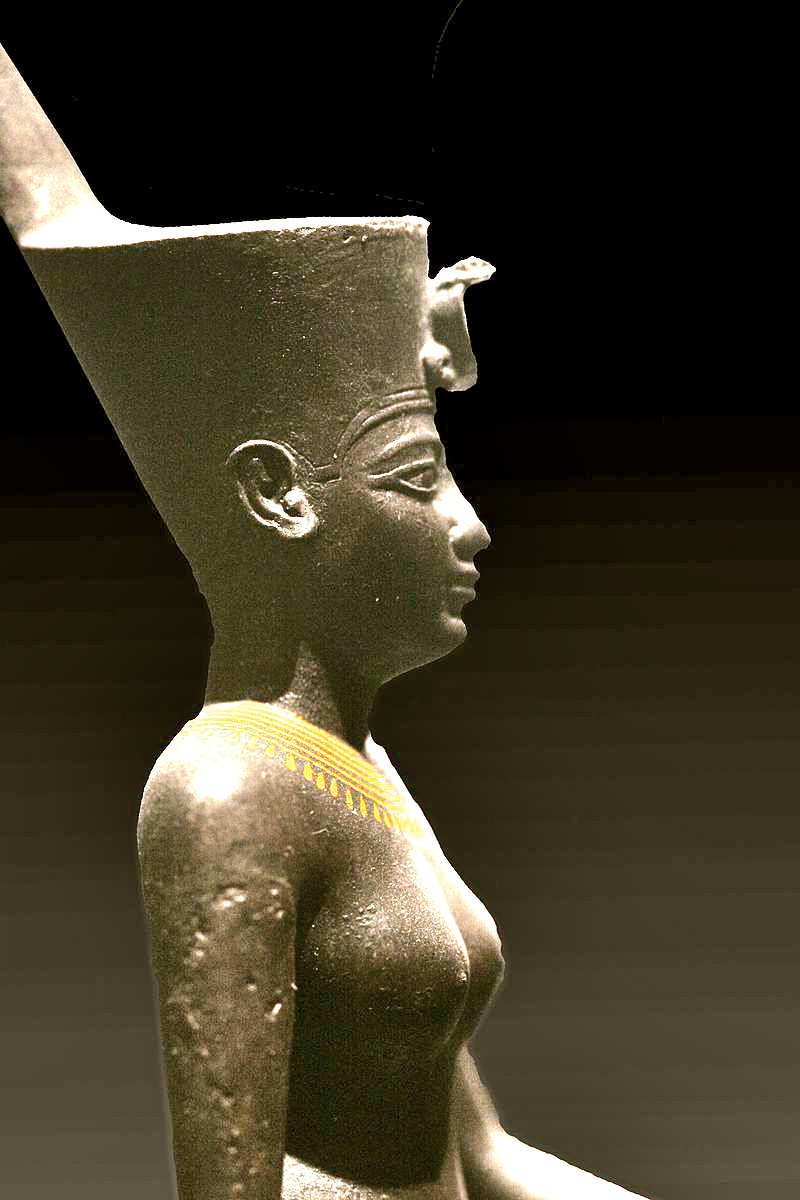 Artist: Unknown Statue of goddess Neith Late Period, 664 - 332 BC Dimensions: 23 cm high